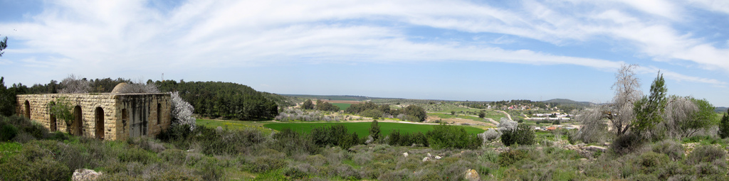 Beit Govrin, Architecture of Israel